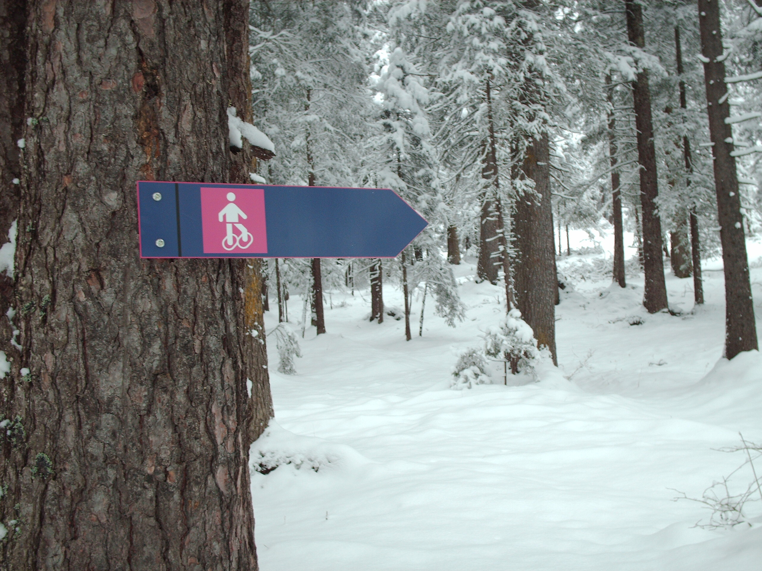 Swiss signpost for snowshoe trails